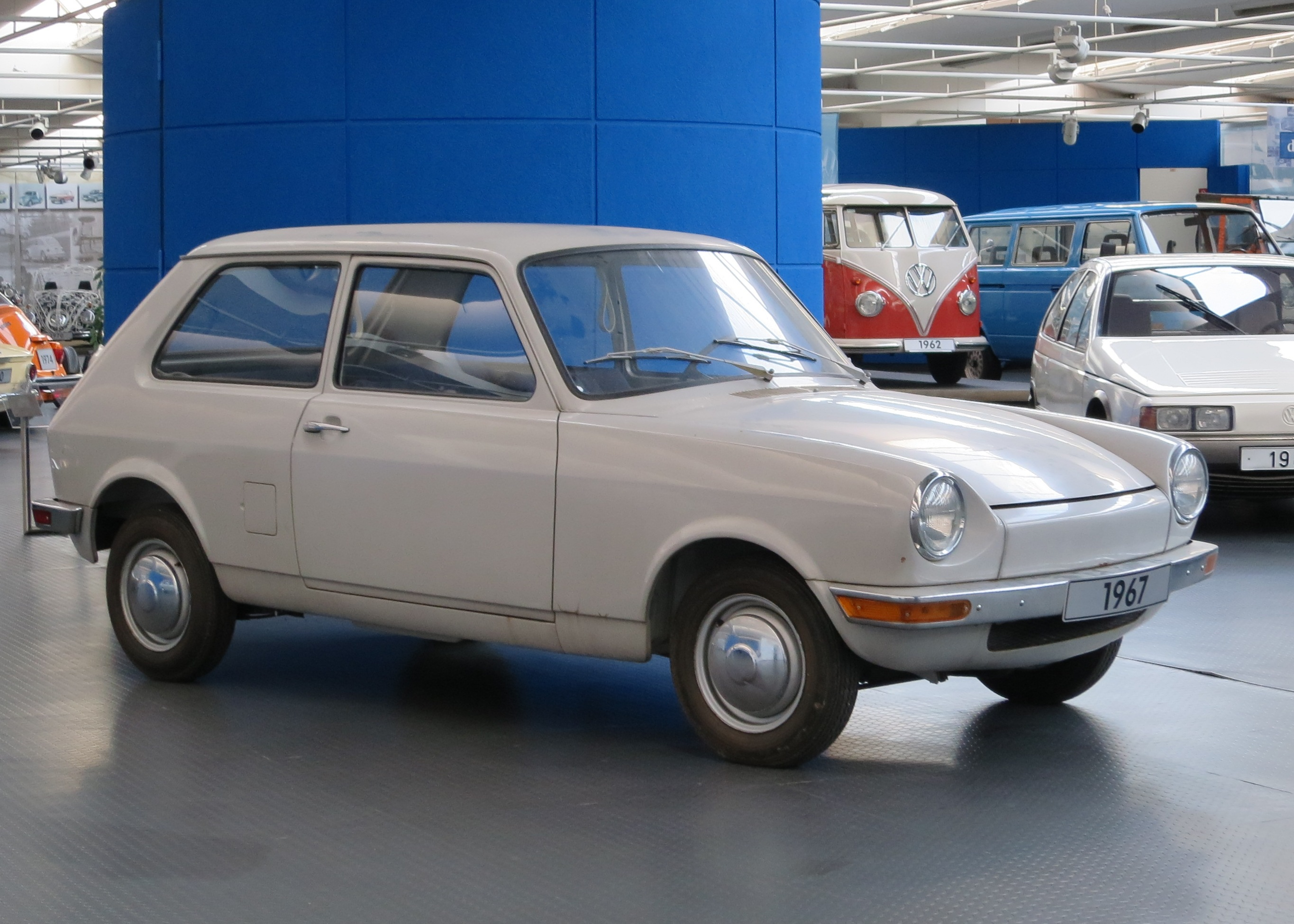 Volkswagen EA235 Prototype for a Beetle successor (1967) Towards the end of the 1960s as the appetite in key markets for the Beetle finally showed signs of becoming satisfied, there was intense speculation about a Beetle successor. Volkswagen themselves contributed a slightly unclear picture of approximately ten prototype Beetle successors in a compound to the press, while announcing that the picture showed some of the proposals that had been rejected.